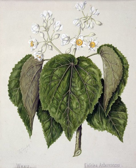 Entelea arborescens, Whau, Cork tree, New Zealand, watercolour, 264 x 214 mm